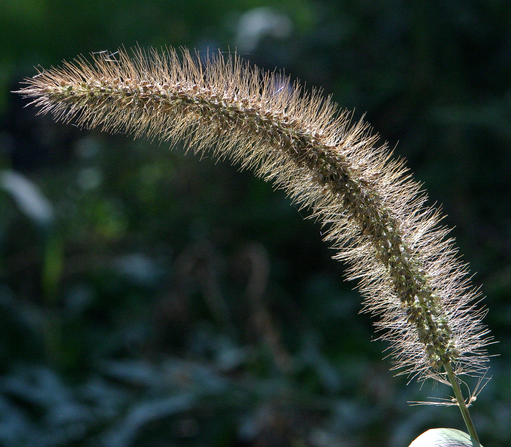 Pennisetum setaceum , self made image.